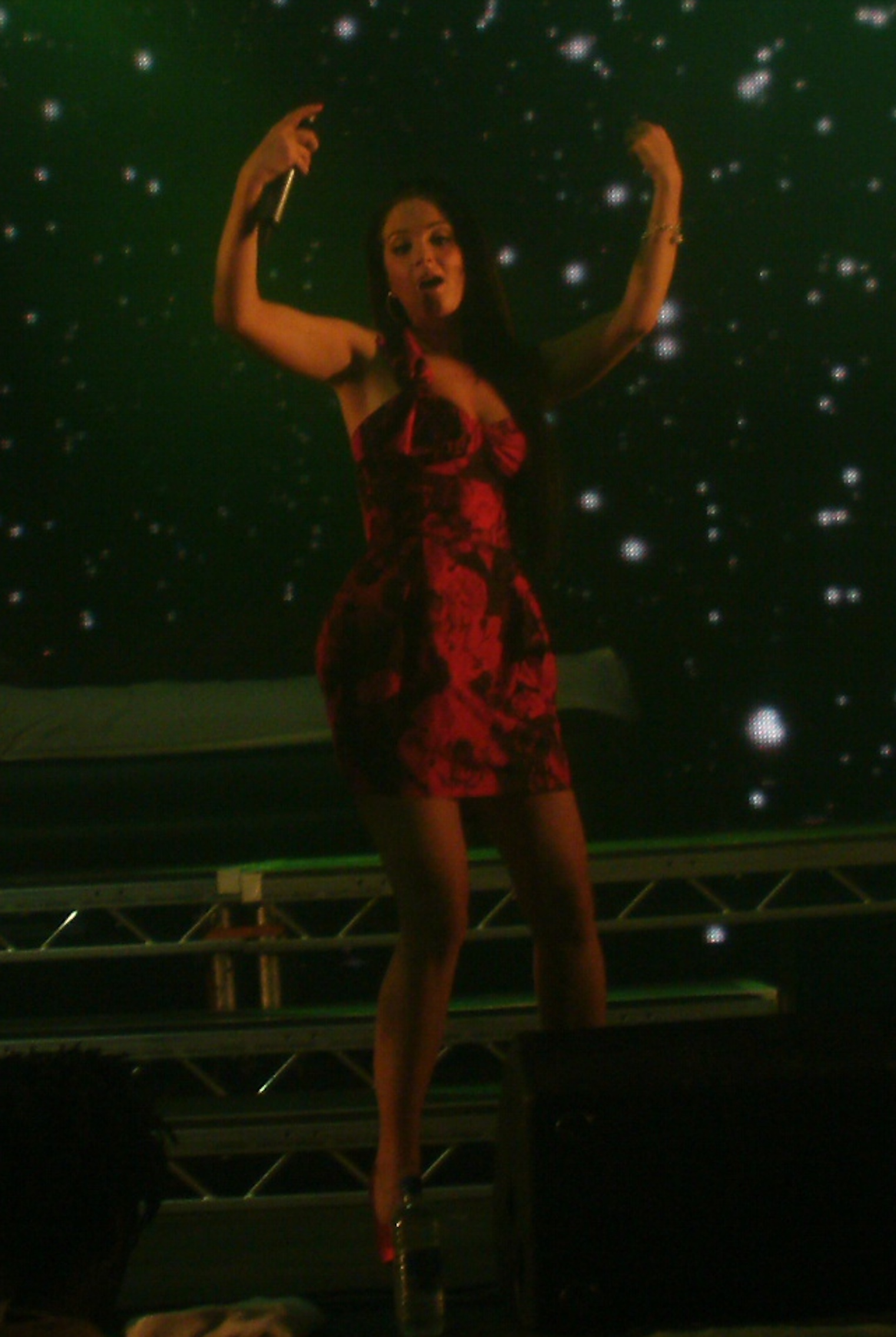 Tulisa performing onstage with N-Dubz in 2010